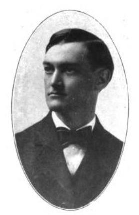 Photo is of former Missouri Tigers Baseball and Basketball coach from page 228 of the 1908 Savitar Yearbook From the Google Books archive: Title The Savitar Publisher E. W. Stephens., 1908 Original from the University of Michigan Digitized Dec 17, 2008